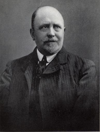 Marshall Stevens, manager of the Manchester Ship Canal Company (1885–1896), Managing Director (1897–1929) and Chairman of Trafford Park Estates (1912–1929)